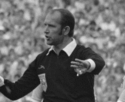 Károly Palotai Hungarian association football player and referee